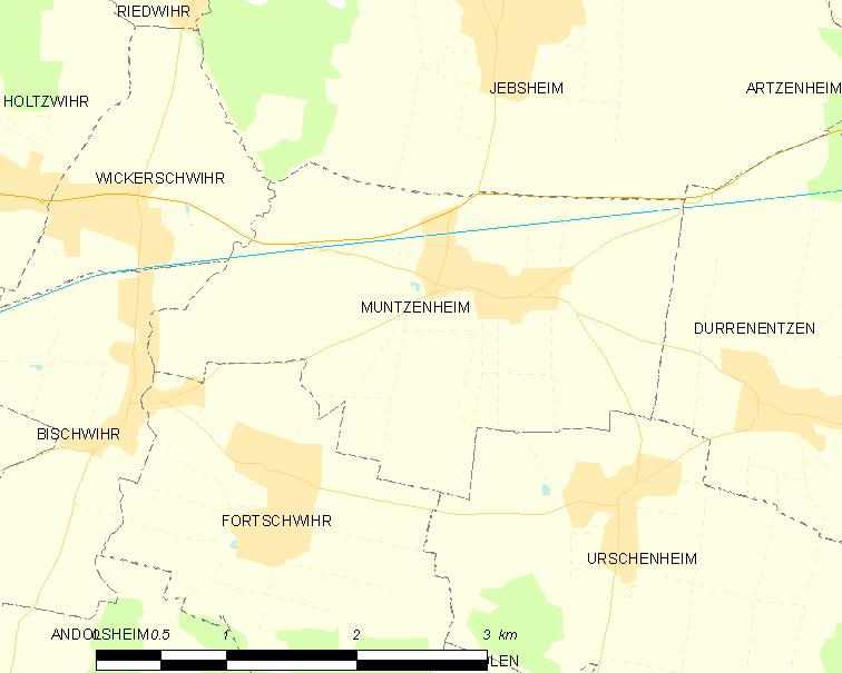 Map of French municipality